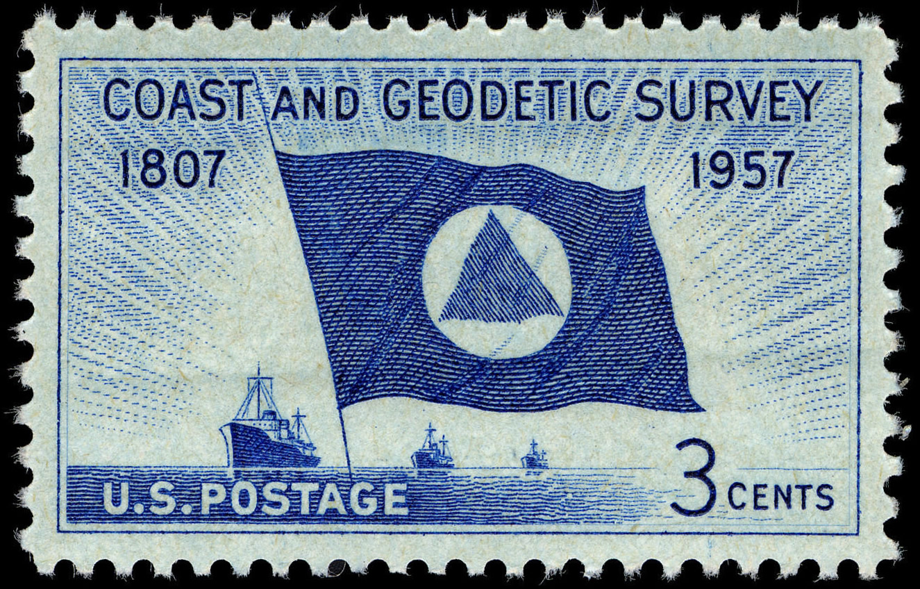 Coast & Geodetic Survey - 1807-1957 - 150th anniversary - 3-cent 1957 issue U.S. stamp. The flag of the Coast and Geodetic Survey is featured as stamp's vignette.